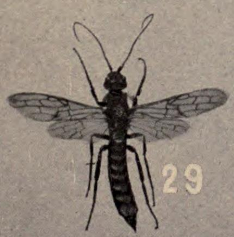 Xeris caudatus. Note Howard called it Xeris caudata